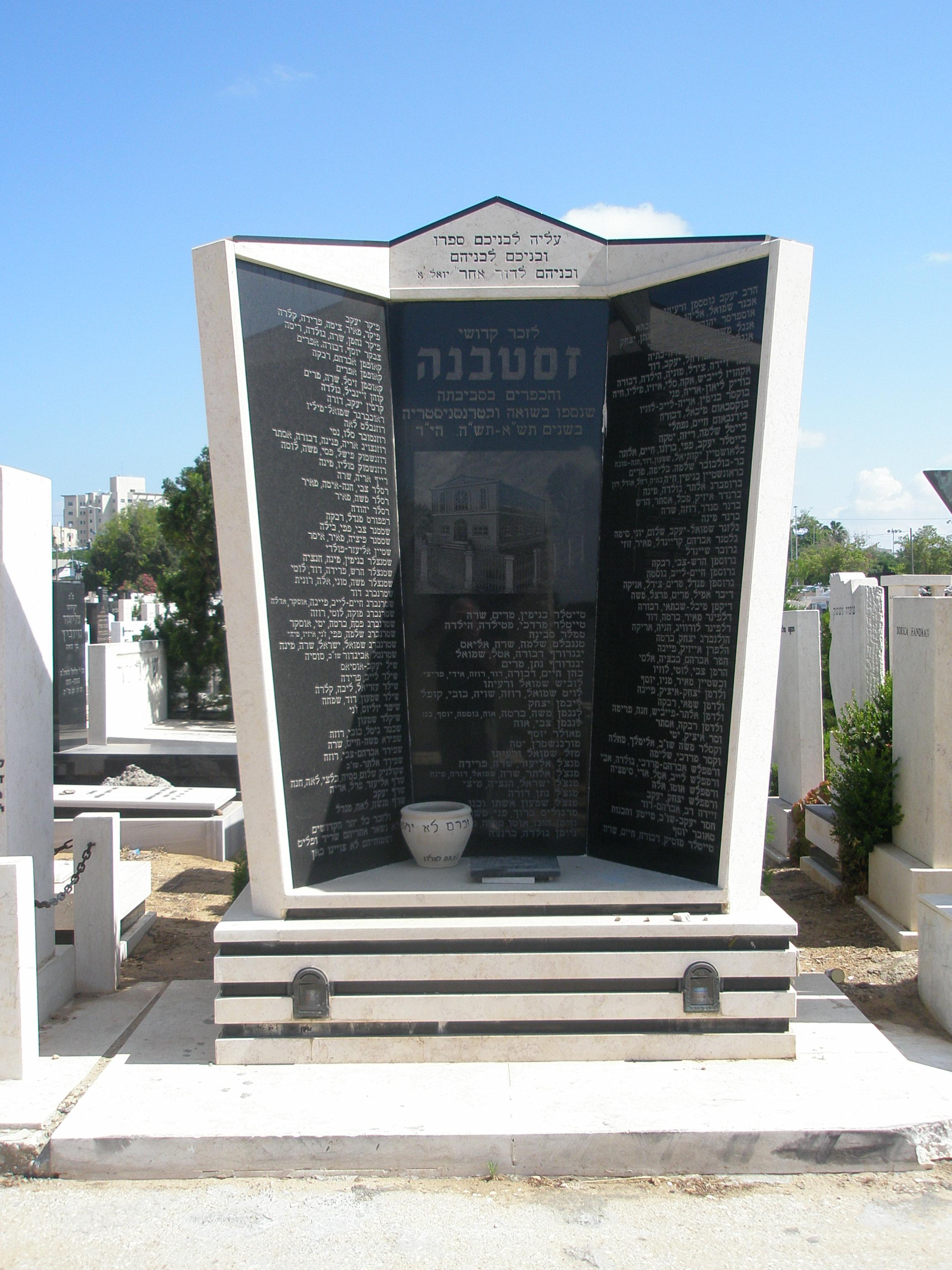 Zastavna memorial at Holon Cemetery with Zastavna's synagogue image